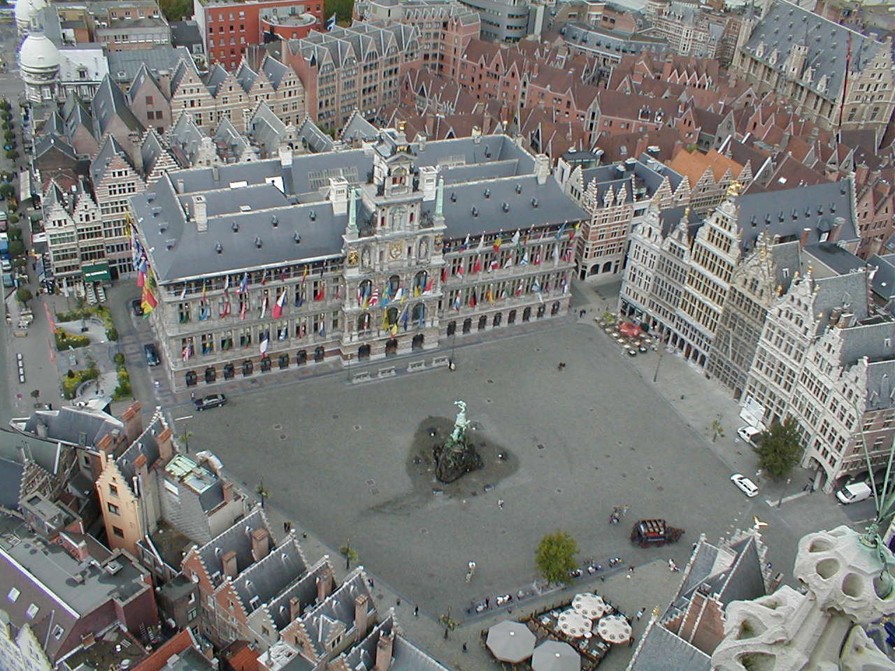 OLV TOREN